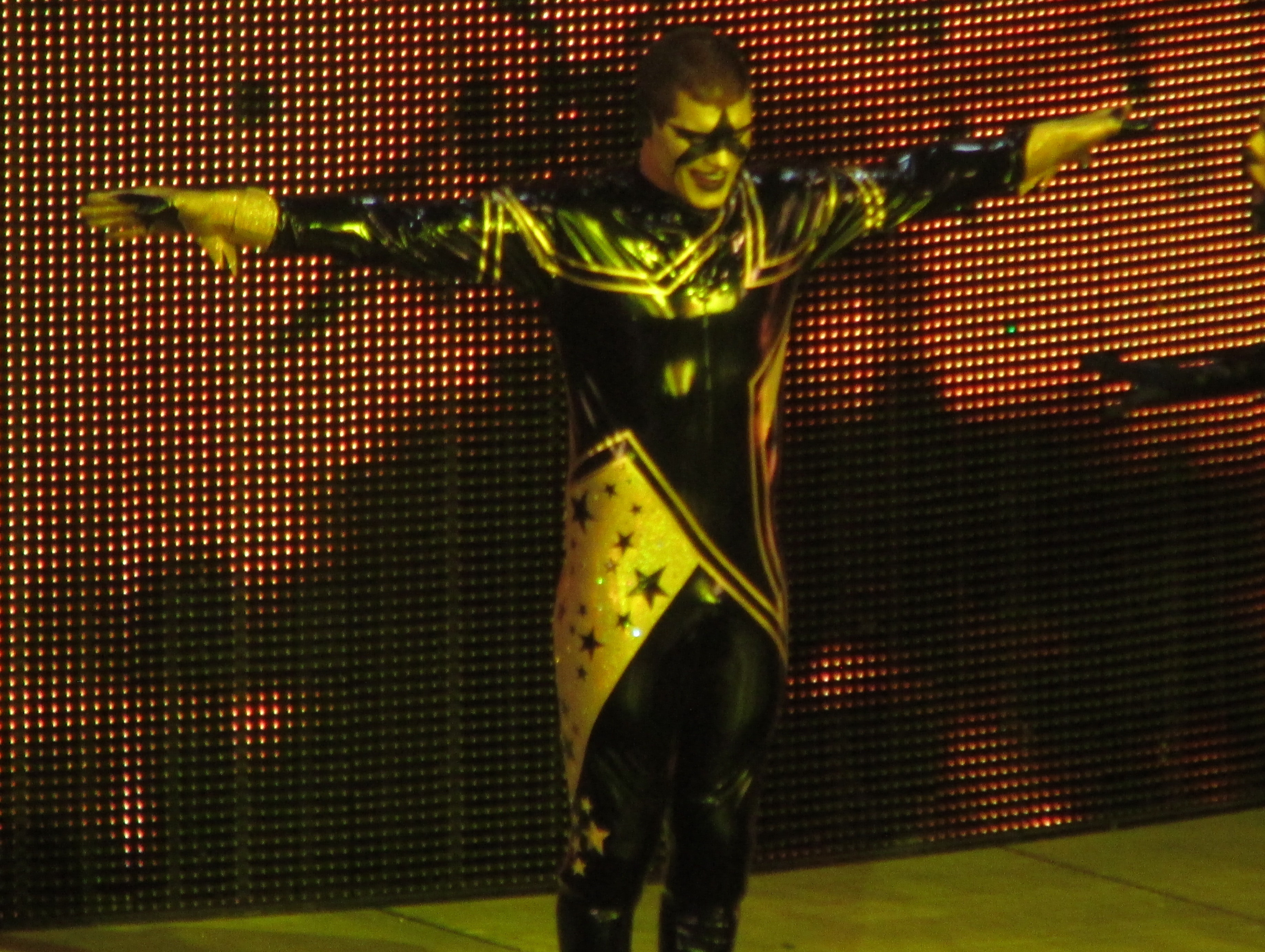 Starman (aka Cody Rhodes) on the June 16, 2014, episode of WWE Raw. Cropped from original image and auto-contrast applied.